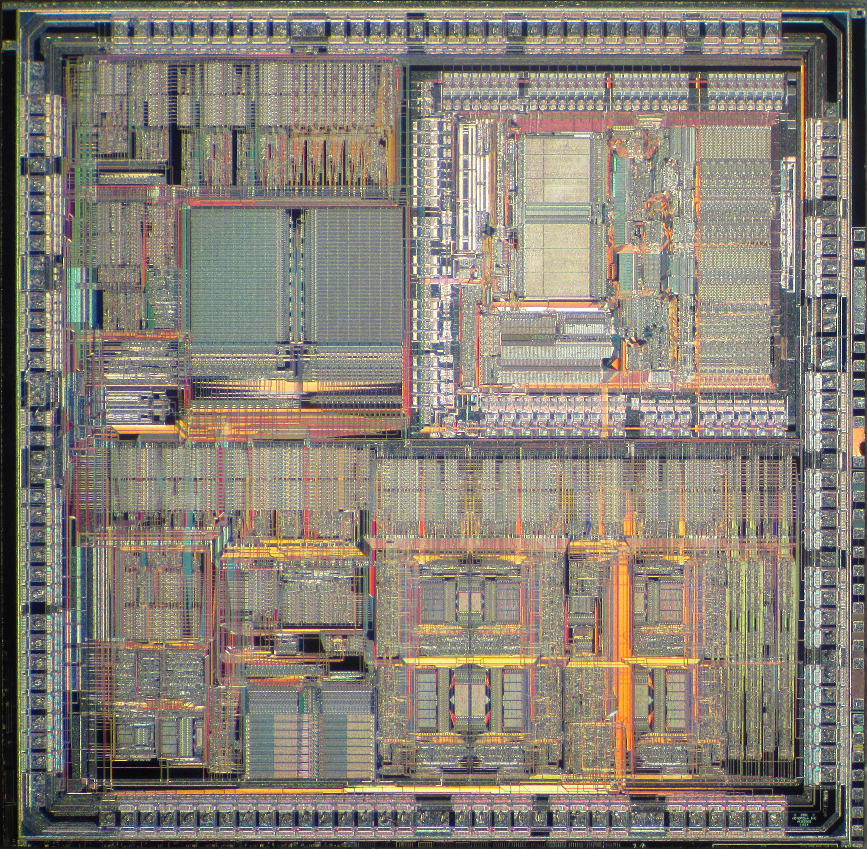 Die shot of Motorola 68302 integrated multi-protocol processor (MC68302FE16C).